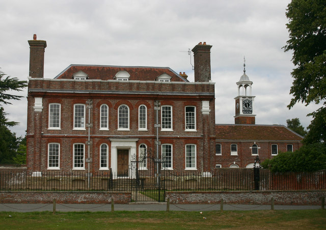 Matfield House and Stables, Brenchley, Kent